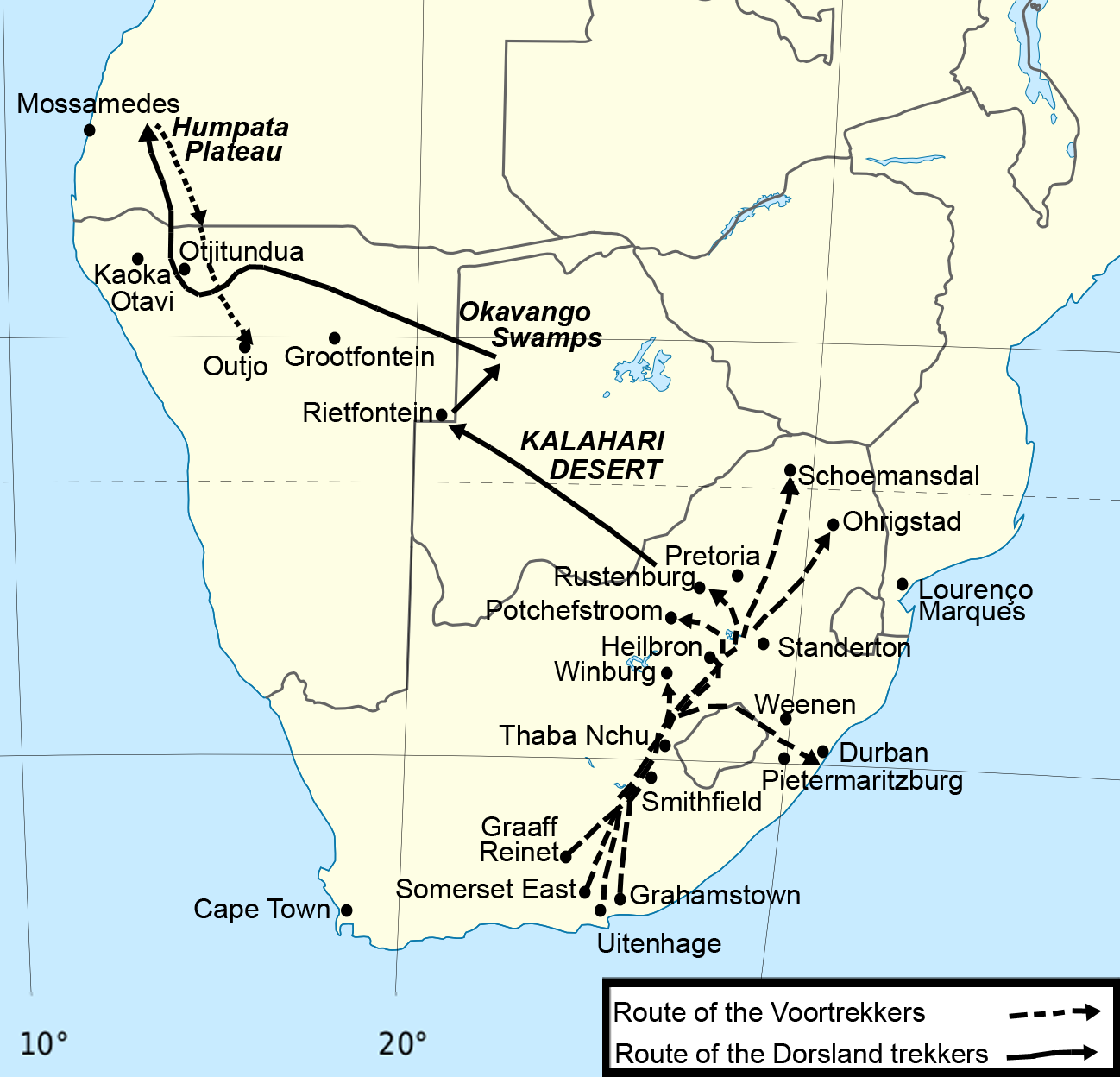 Map Of The Route Of The Dorsland Trekkers. Source: Map Of The Route Of The Thirstland Trekkers, which is taken from The Great Trek by Oliver Ransford (1968)